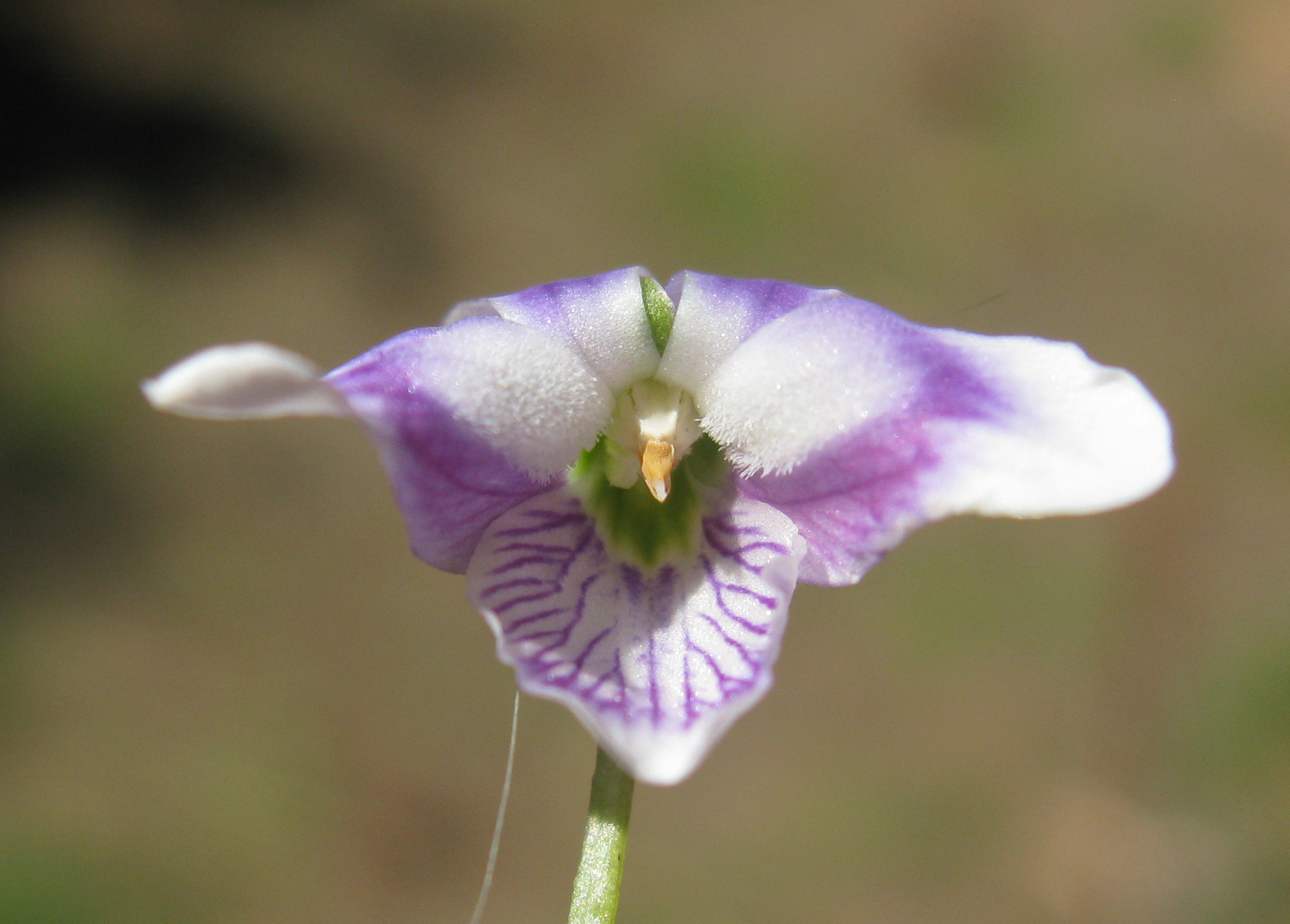 Viola hederacea flower19